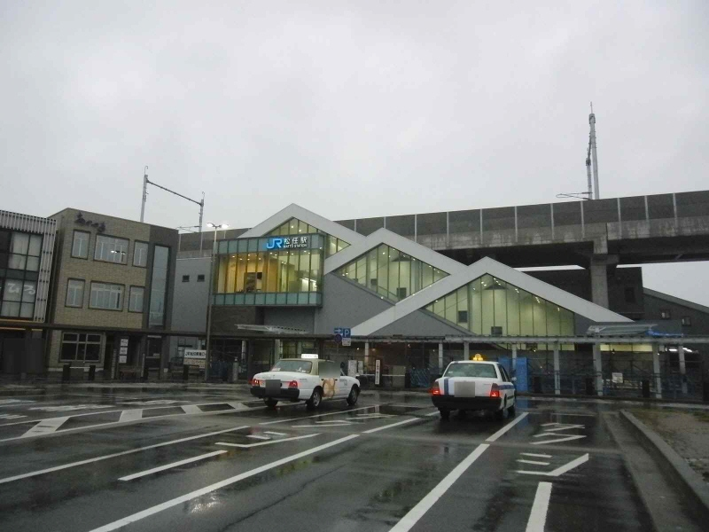 松任駅南口の駅舎の写真です。